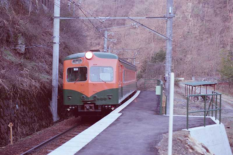 Kinno Sta., JNR Ida-Line, Nagano prefecture. 国鉄飯田線金野駅（長野県飯田市） 南側（豊橋方）を望む。